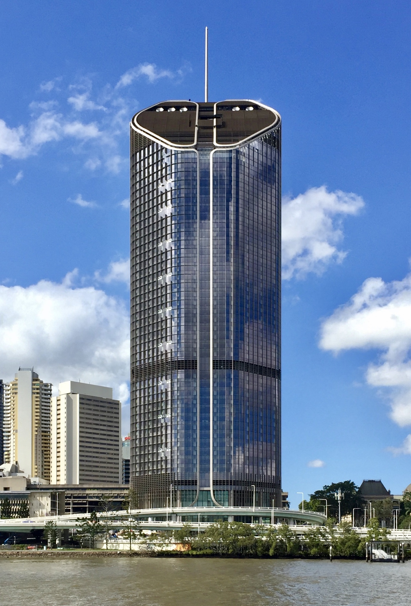 1 William Street, Brisbane, September 2016